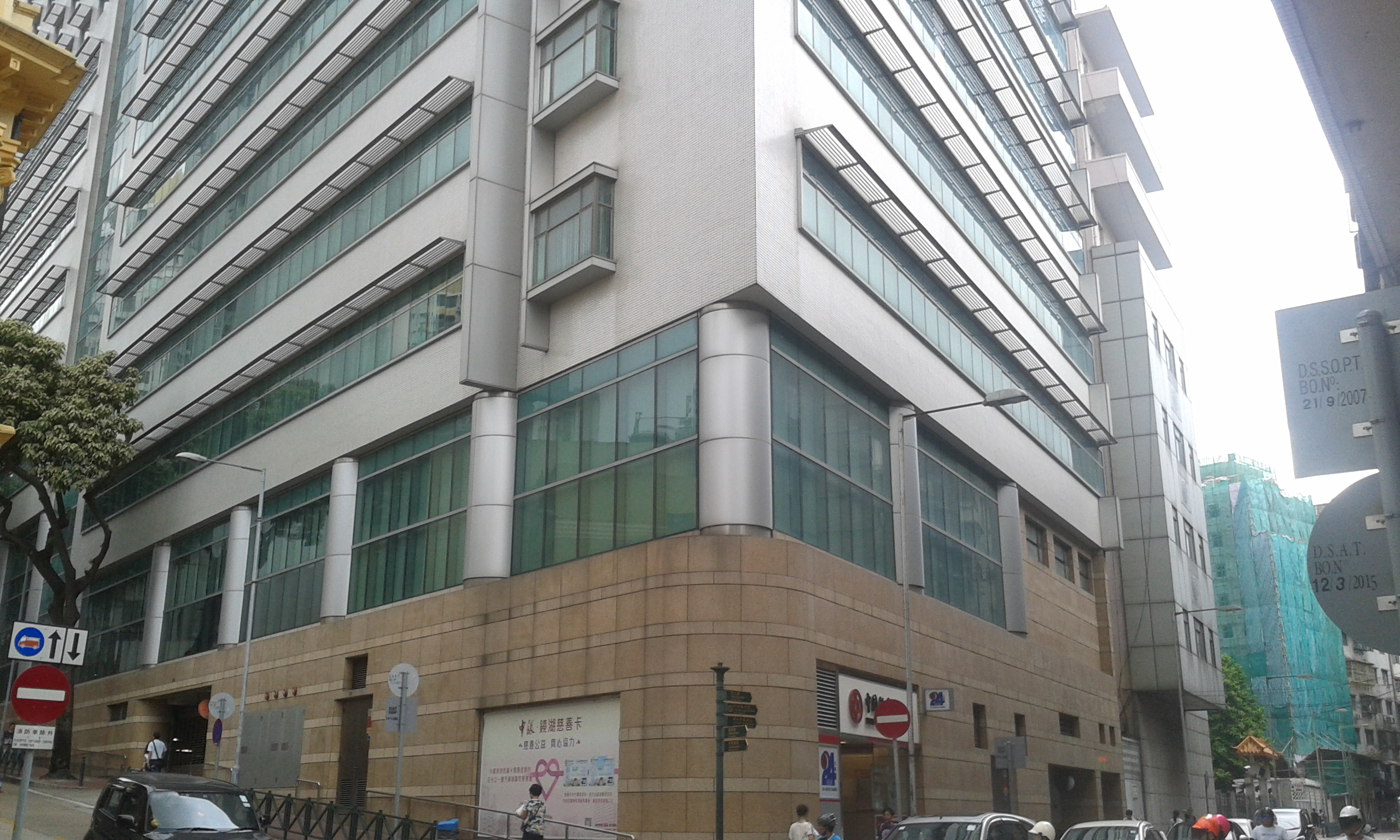 Kiang Wu Hospital Dr. Henry Y.T.Fok Specialist Medical Centre